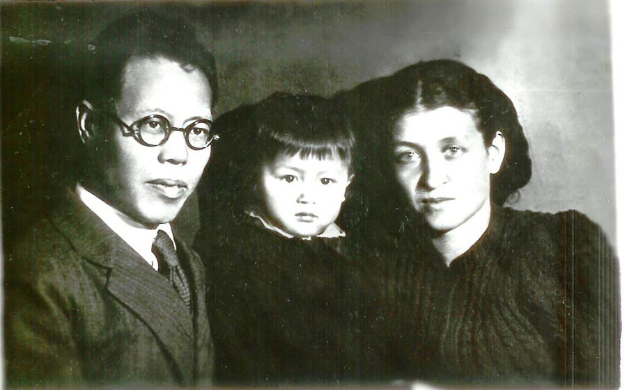 李立三,女兒,夫人李莎（俄文：Елизавета Павловна Кишкина）1946年回国前，李立三和妻子及女儿英男合影。